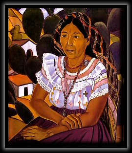 jose mejia vides since he's my grandpa i dont need any lisence